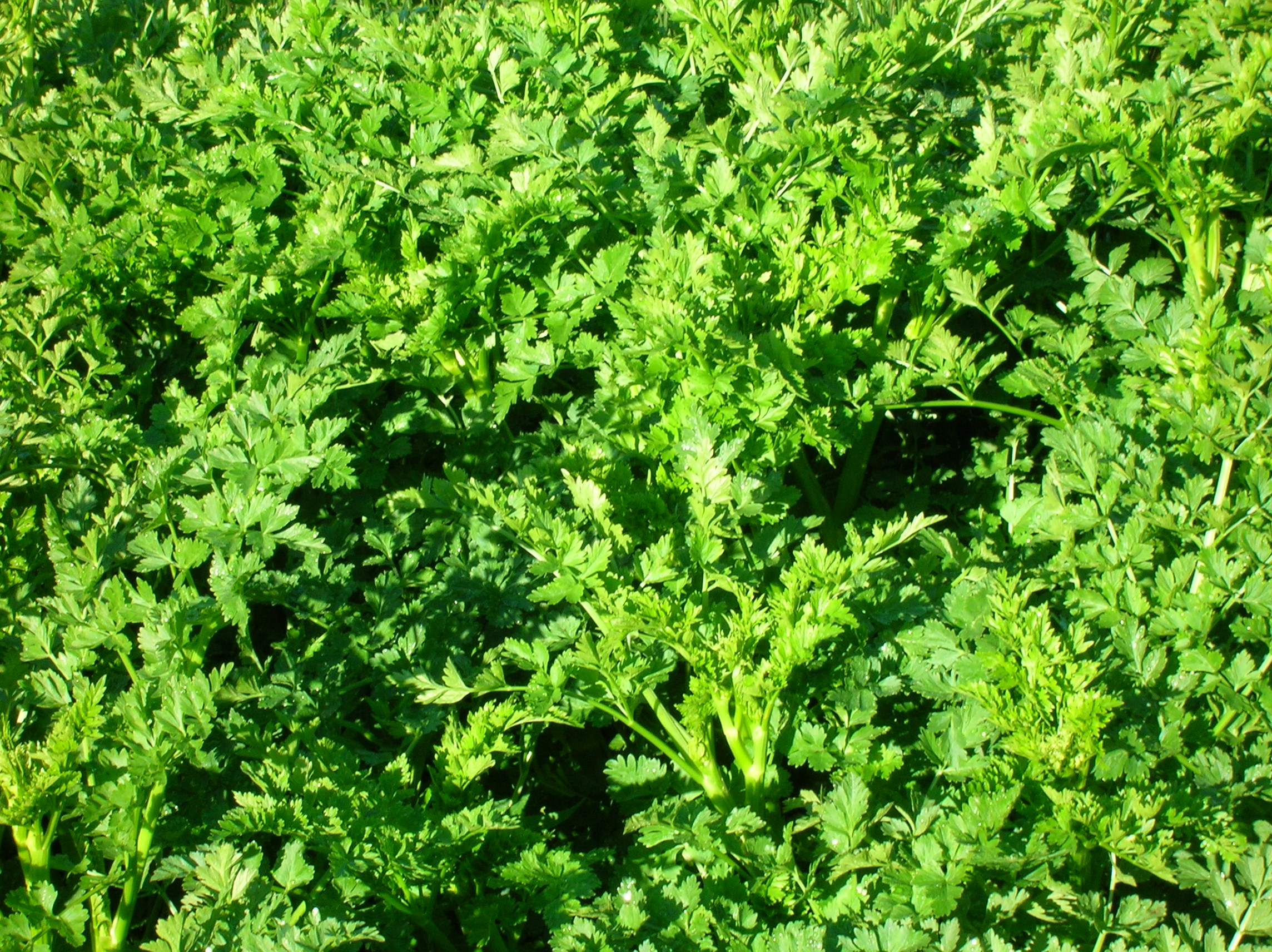 Hemlock Water Dropwort Oenanthe crocata. Dalgarven Mill. Ayrshire. Scotland.